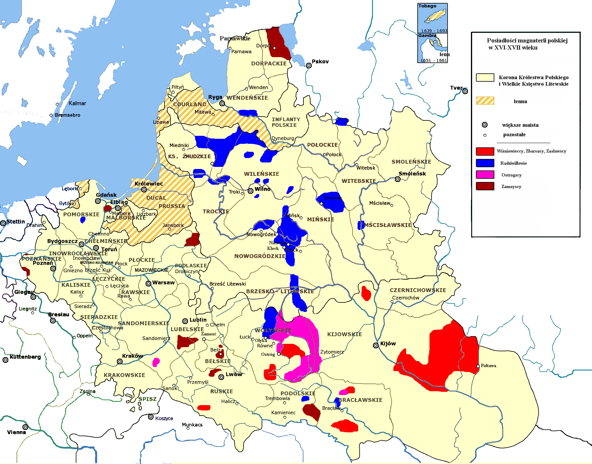 Possesions of Polish magnates in XVI-XVII century